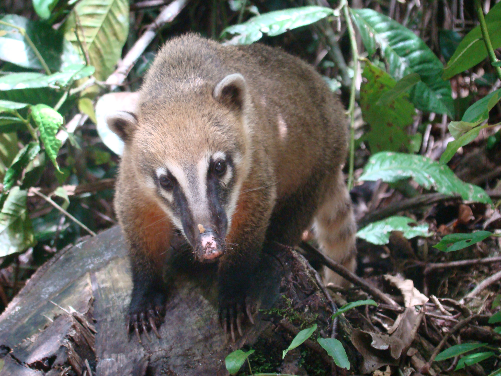 Coati (Nasua nasua) - Picture taken at Parque Nacional da Serra dos Órgãos in Teresópolis (Rio de Janeiro). Note: This is not the Gambá-de-orelha-preta as suggested by the title.